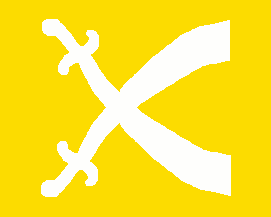 Flag of Bantam, Java